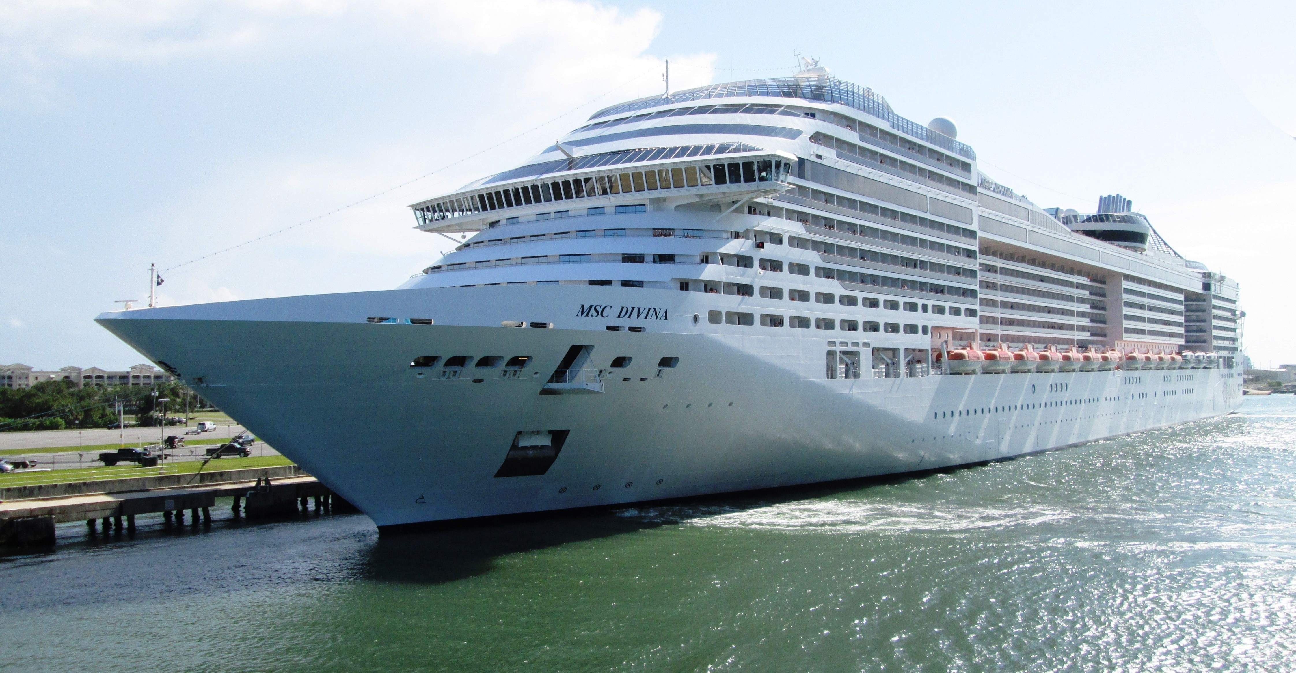 The MS MSC Divina at dock in Port Canaveral, Florida, is owned by MSC Cruises. It was christened in 2012.